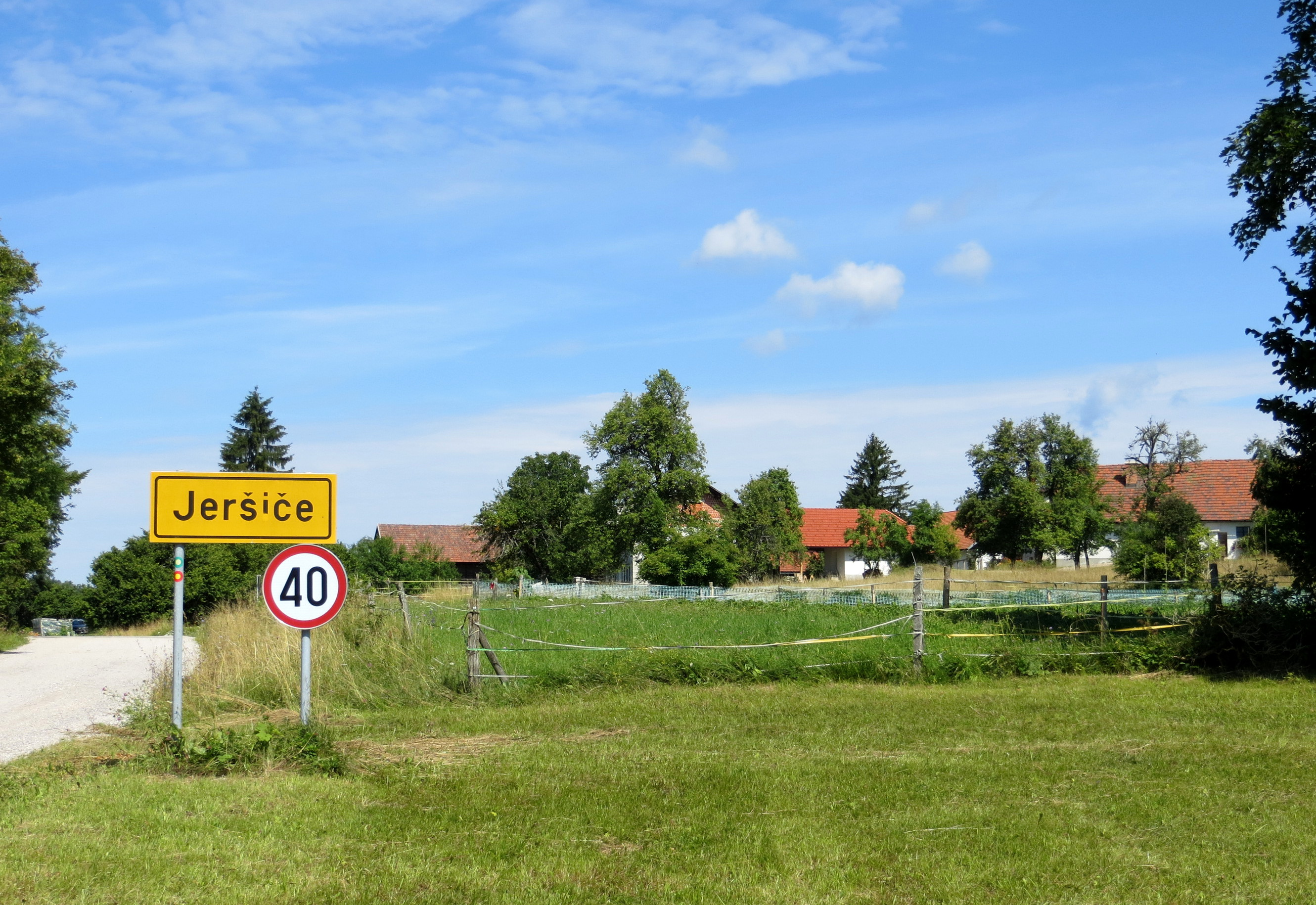 Jeršiče, Municipality of Cerknica, Slovenia